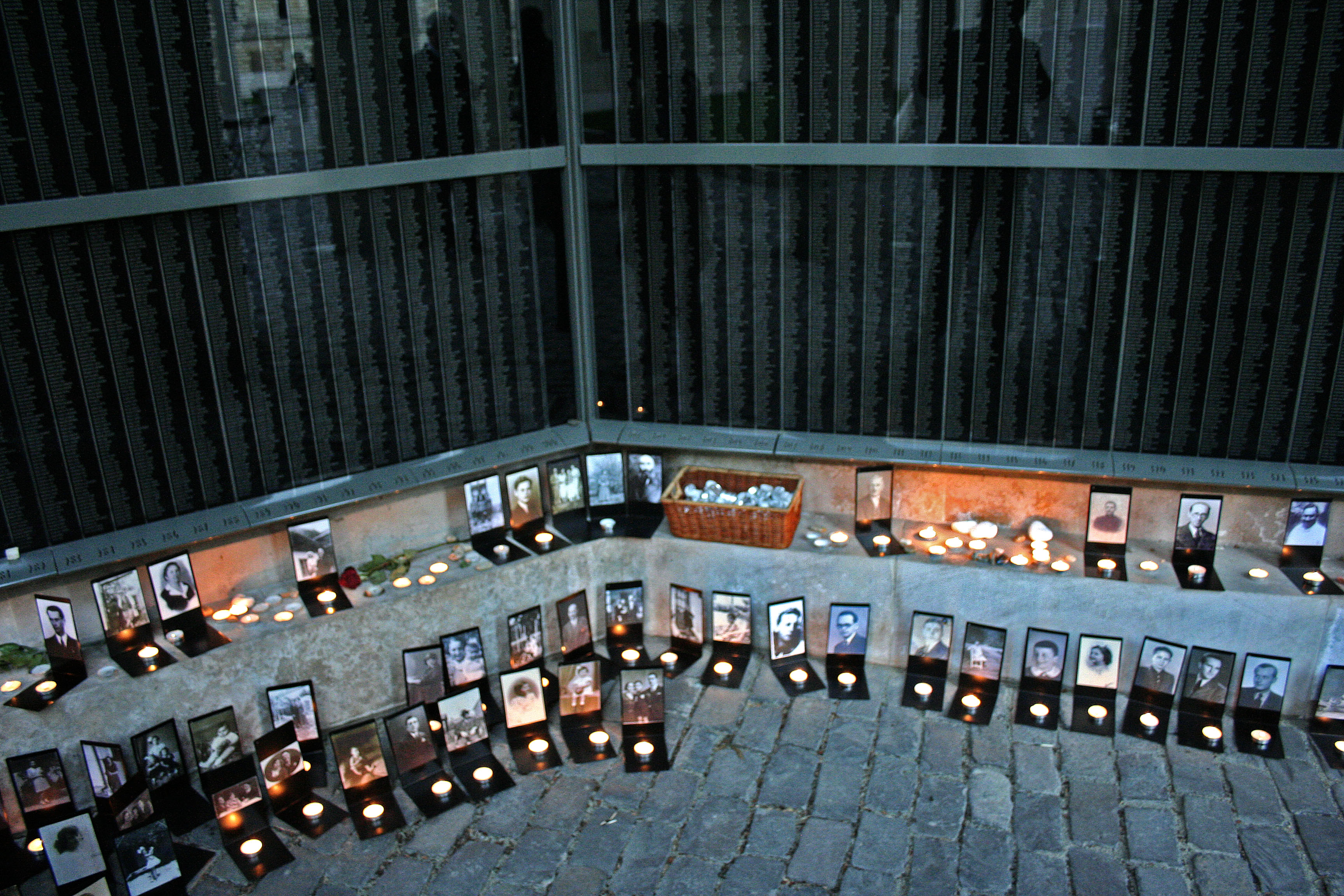 Holocaust Memorial Center, Memorial Wall of Victims - Budapest, Hungary